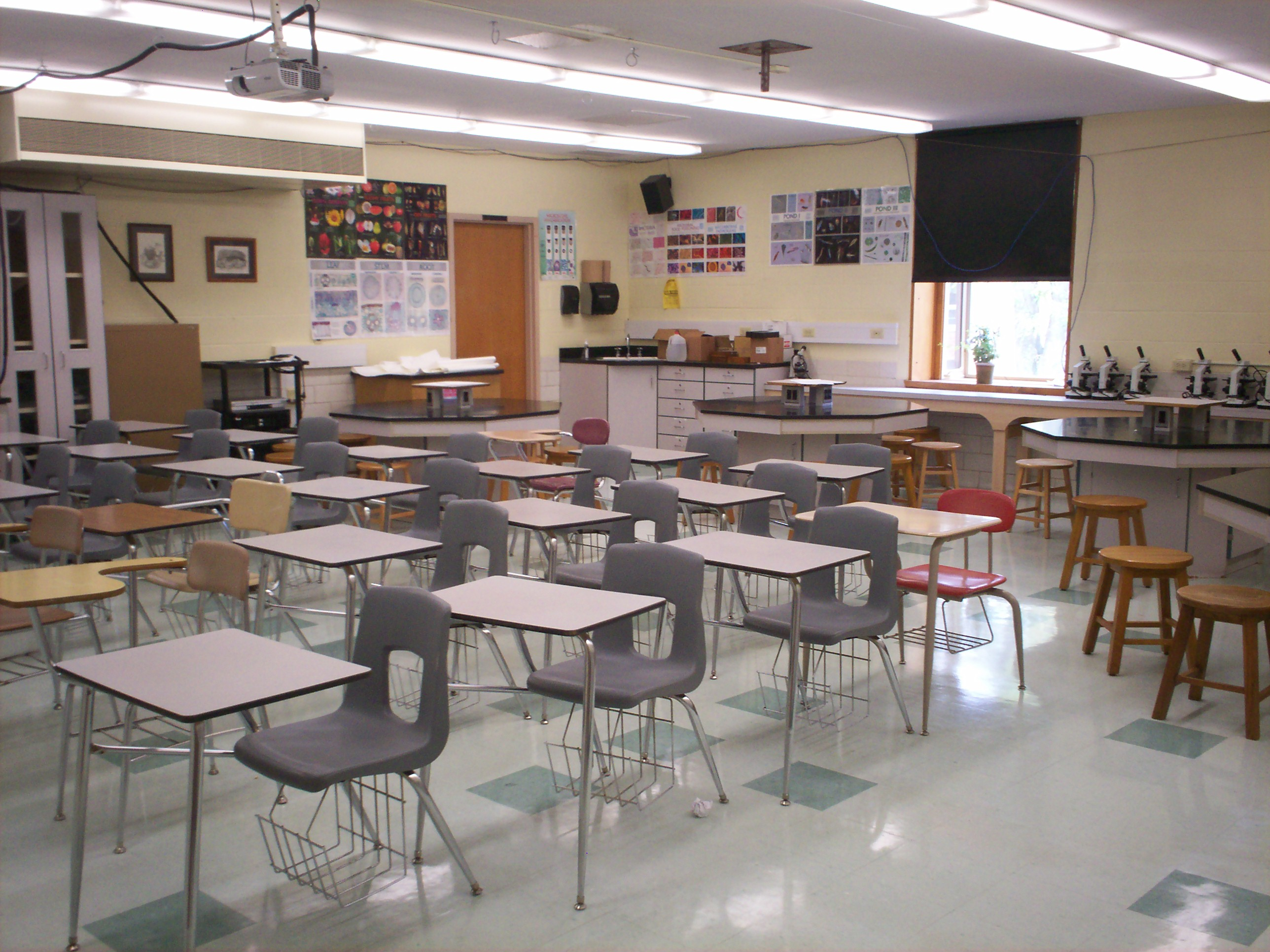 Biology classroom (room 220) at Theodore Roosevelt High School in Kent, Ohio.